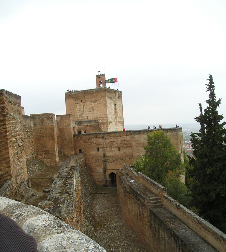 The ramparts of the Alhambra fortress in southern Spain showing the banquette running along the edge of the rampart. Author:Keirn OConnor License: Note: Image was cropped to remove someone's posterior from the image.